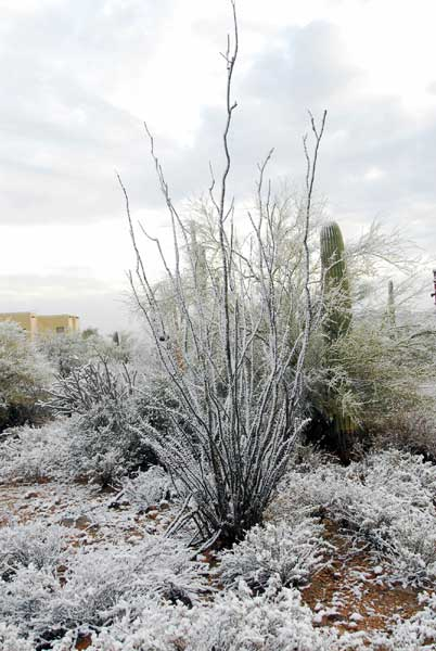 Photo © by Jeff Dean